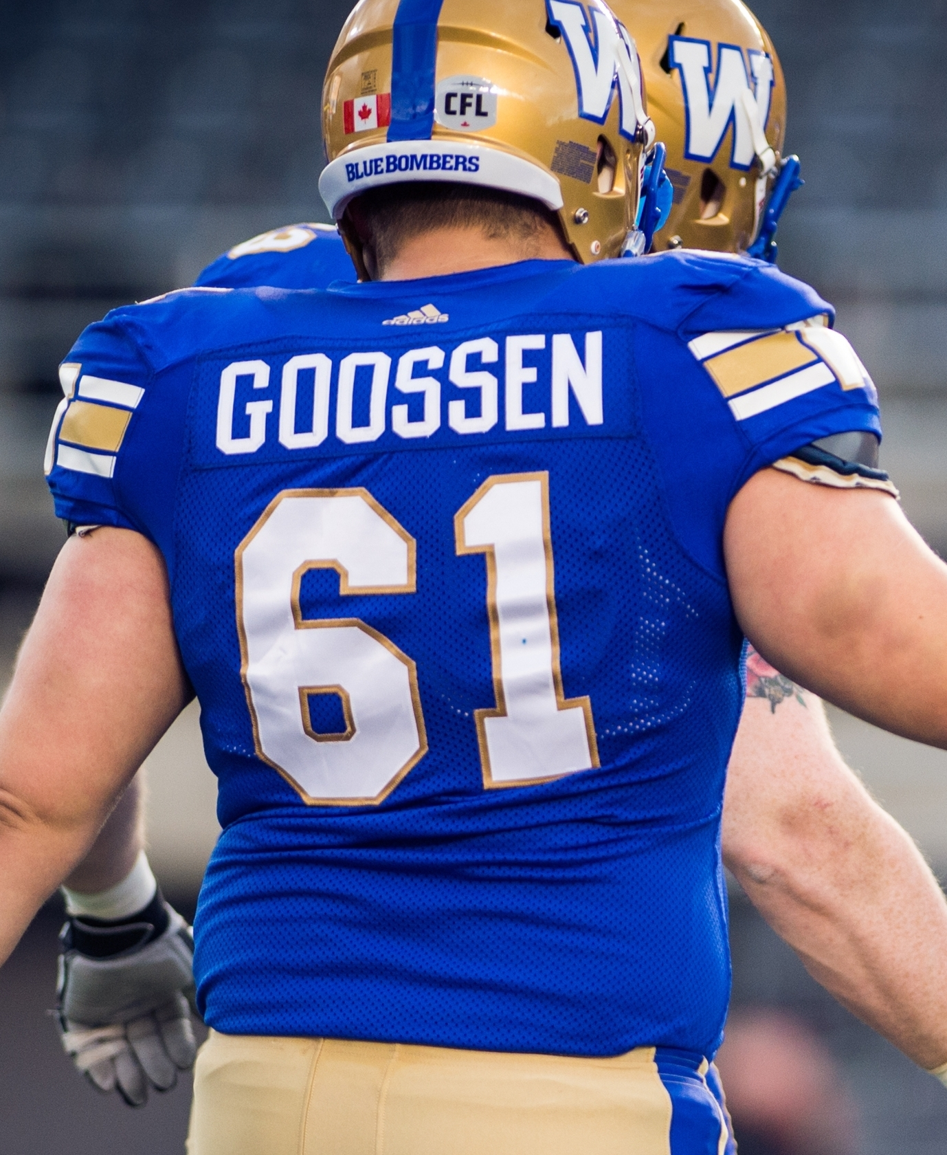 Ryan Smith (12) and Matthias Goossen (61) of the Winnipeg Blue Bombers during the pre-season game at TD Place in Ottawa, ON on Monday June 13, 2016. (Photo: Johany Jutras)